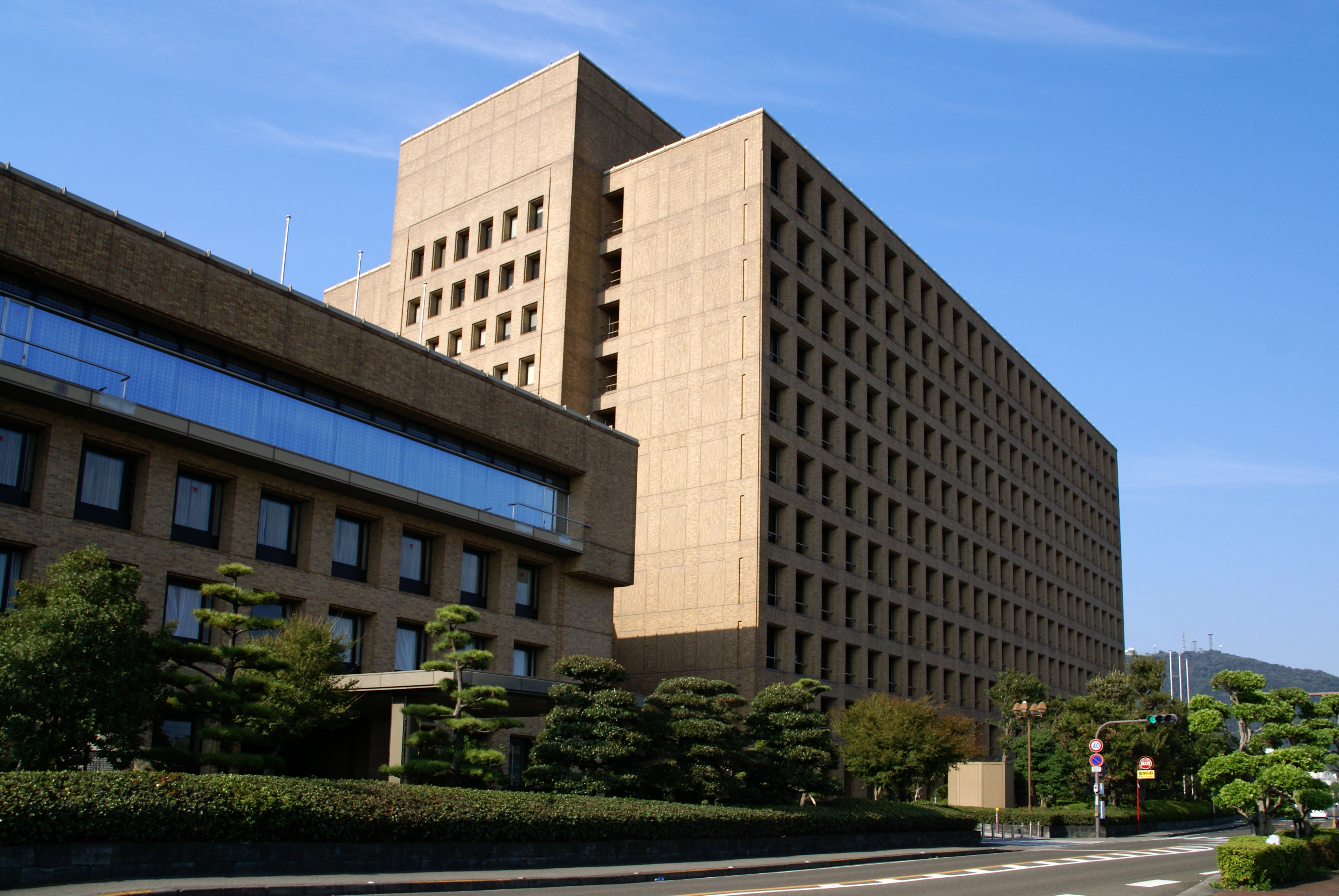 Tokushima Prefectural Office Building in Tokushima, Tokushima prefecture, Japan